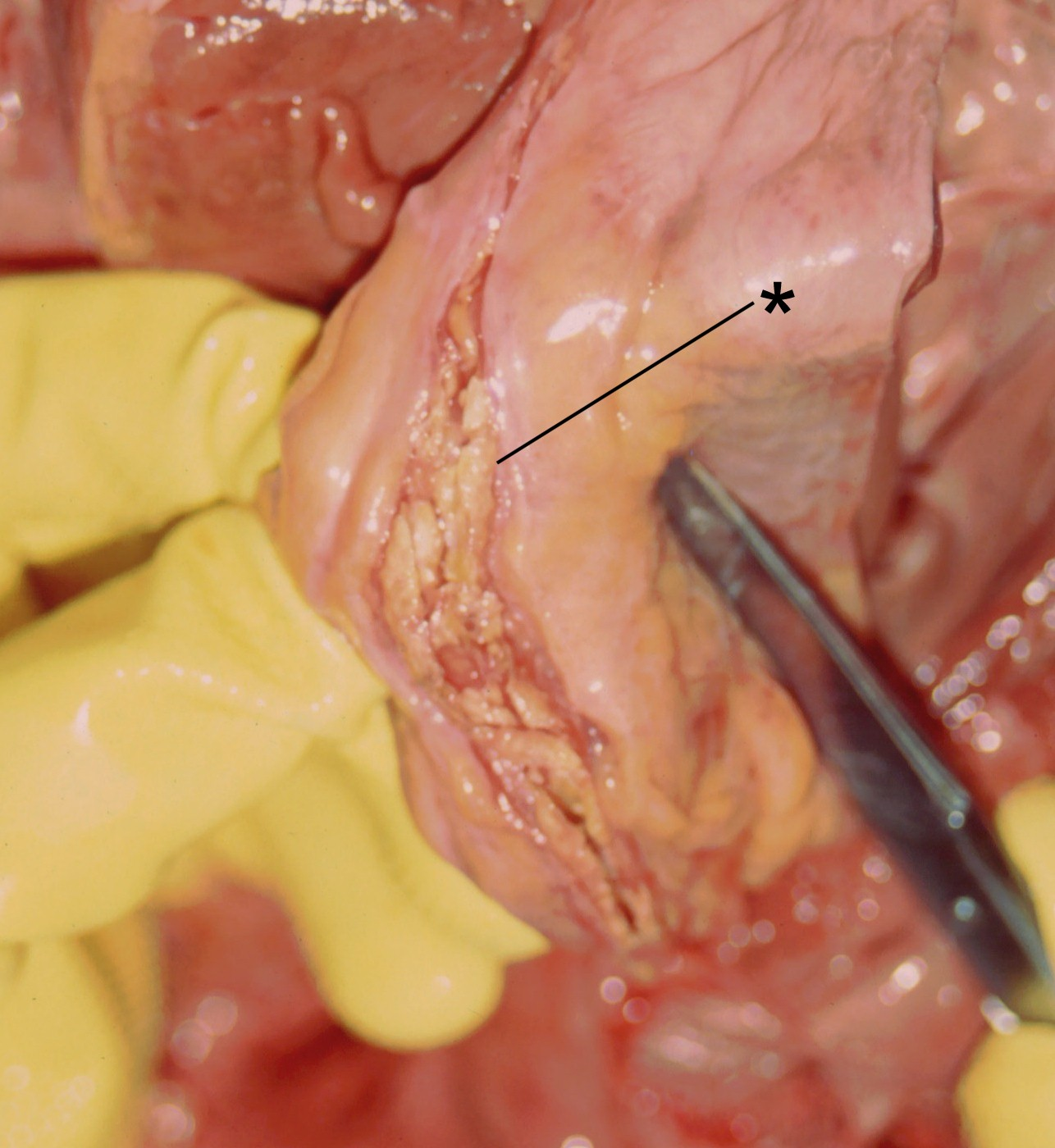 Aortic dissection type Stanford A